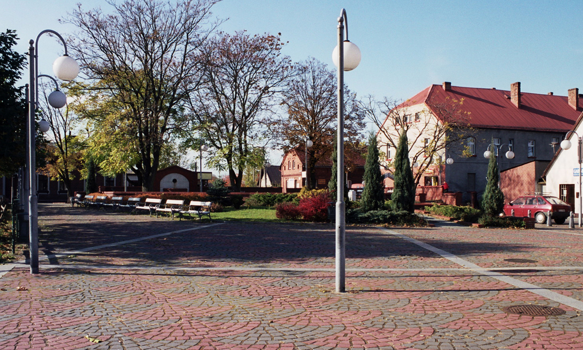 Author:Przykuta Date:October 2005